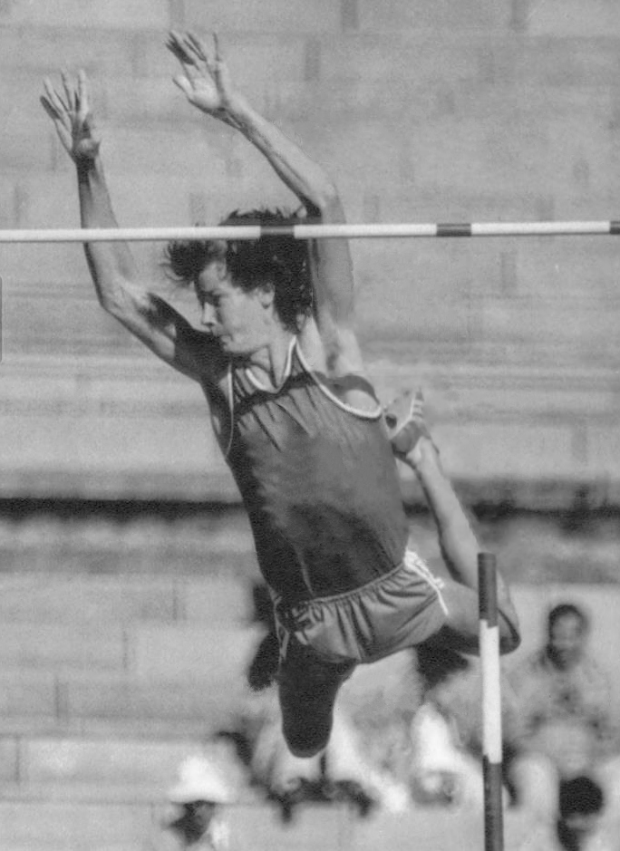 1976 Press Photo Pan American Games Pole Vaulter Winner Earl Bell in Action